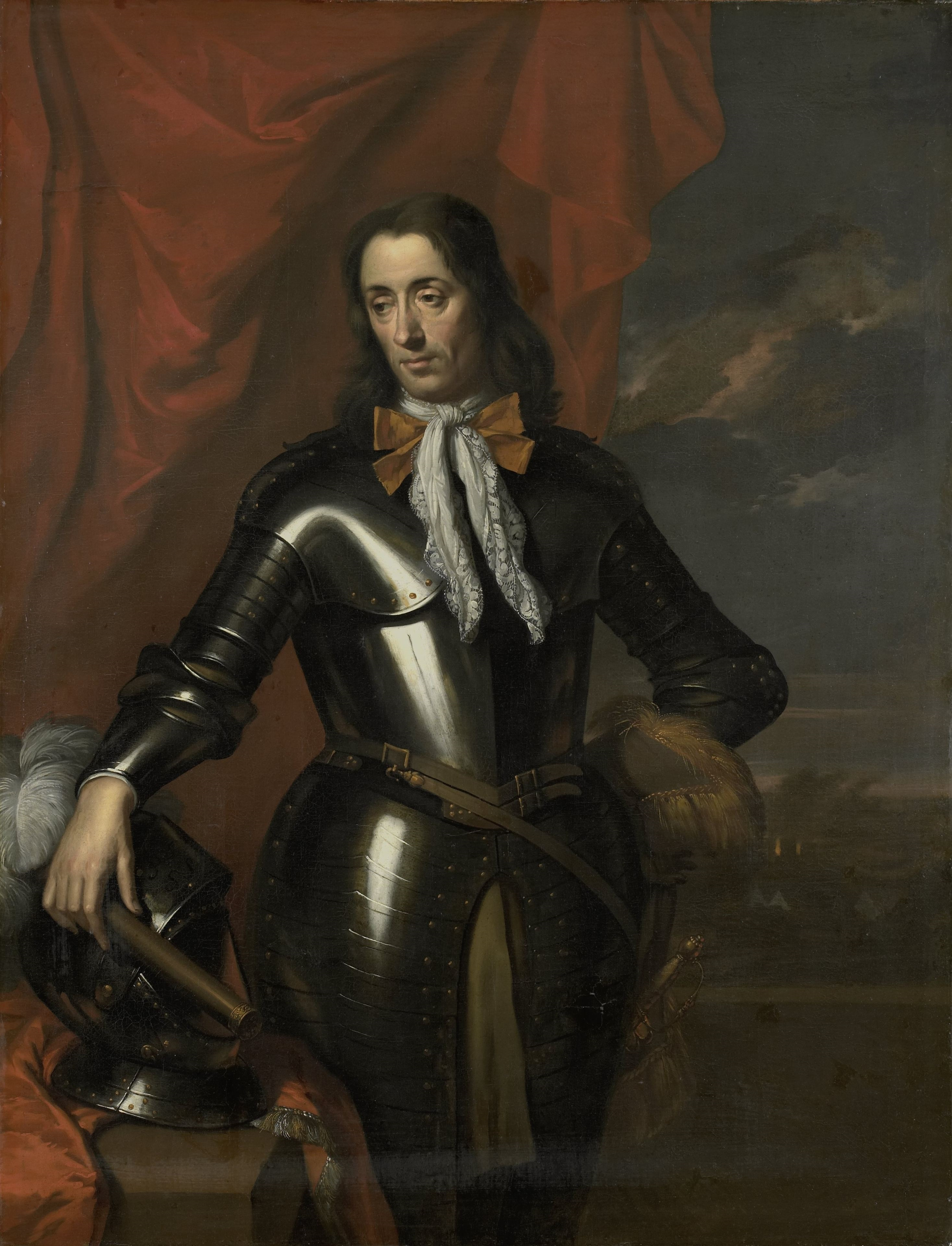 Portrait of Isaac de l'Ostal de Saint-Martin, council of the Dutch East Indies and commander of the garrison at Batavia. At knee length in armor. His right hand, holding a baton, resting on a helmet.